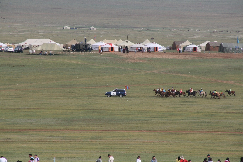 Naadam Horserace on the way to the Racestart